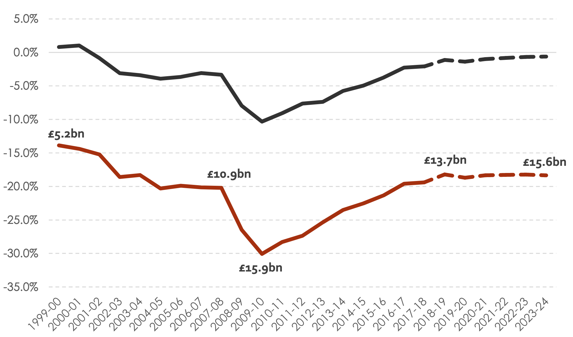 Actual figures from 1999-00 to 2017-18; authors' projections through 2023-24